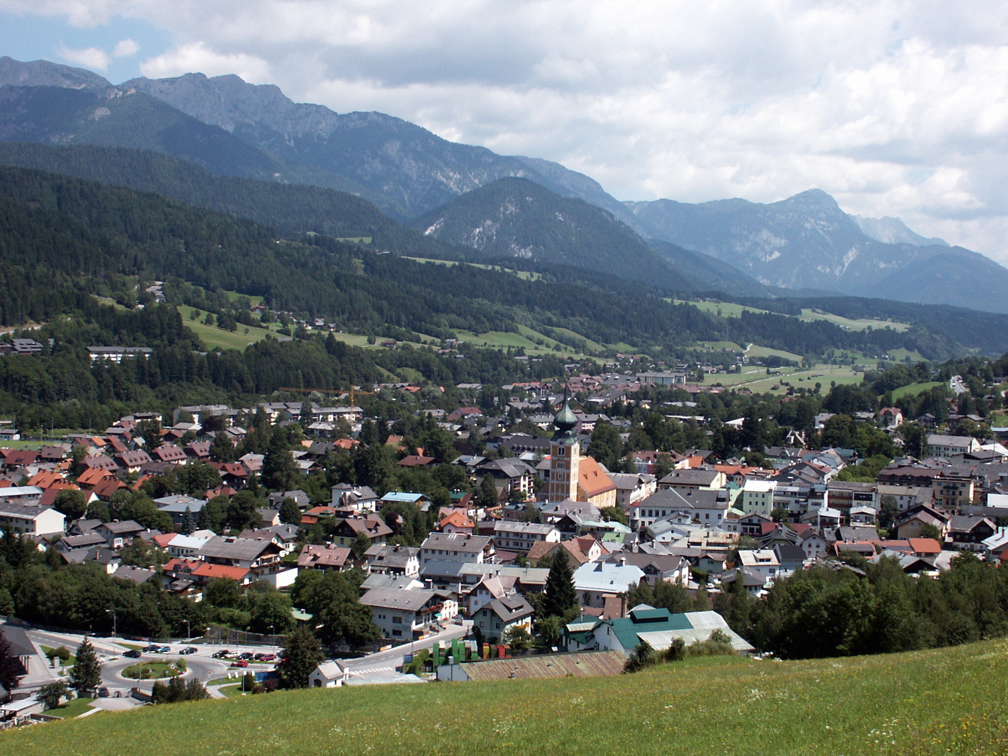 Saint Acacius Church (Schladming), Styria, Austria